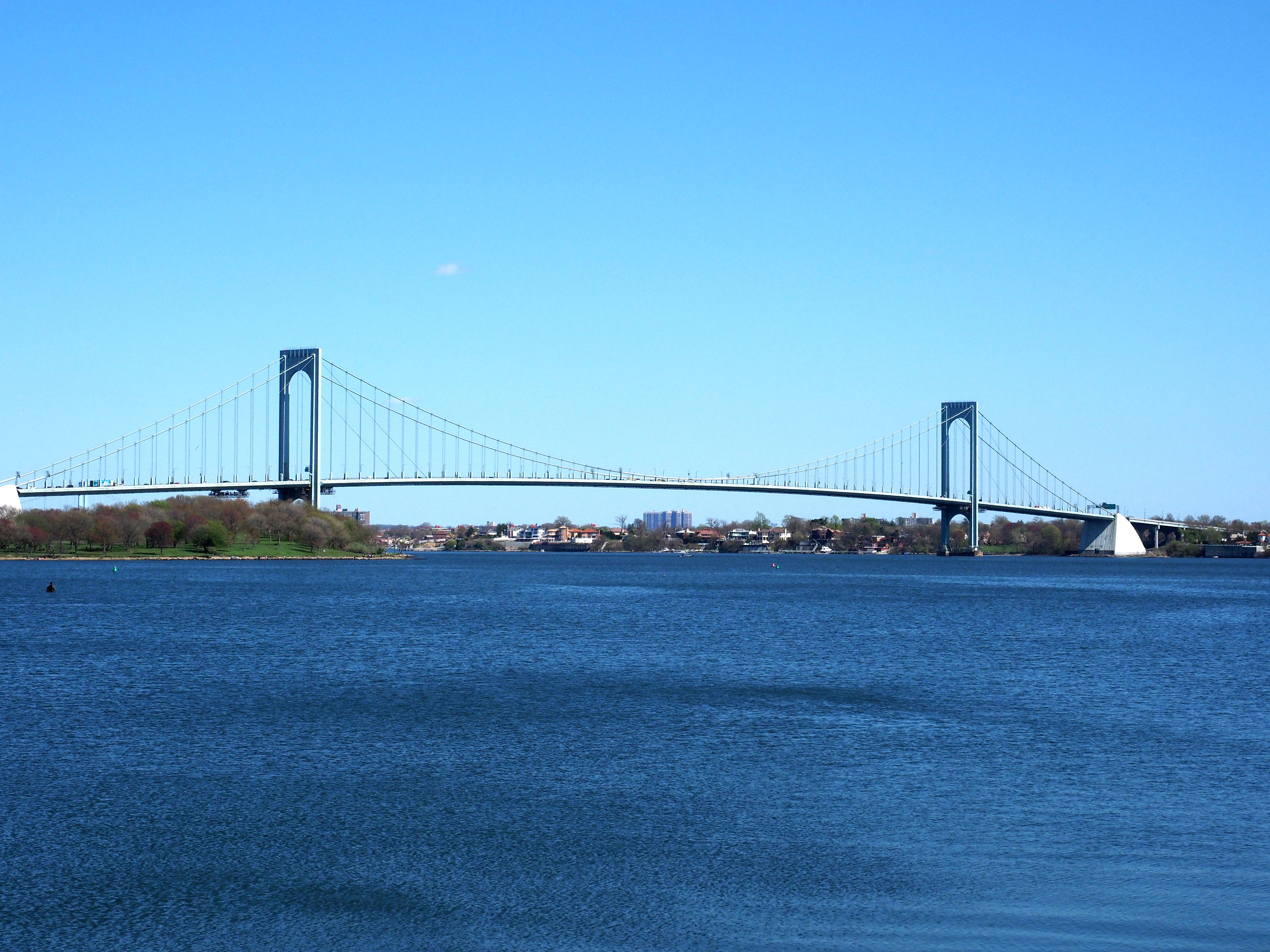 Whitestone Bridge from Clason Point Park, Bronx, NY, United States